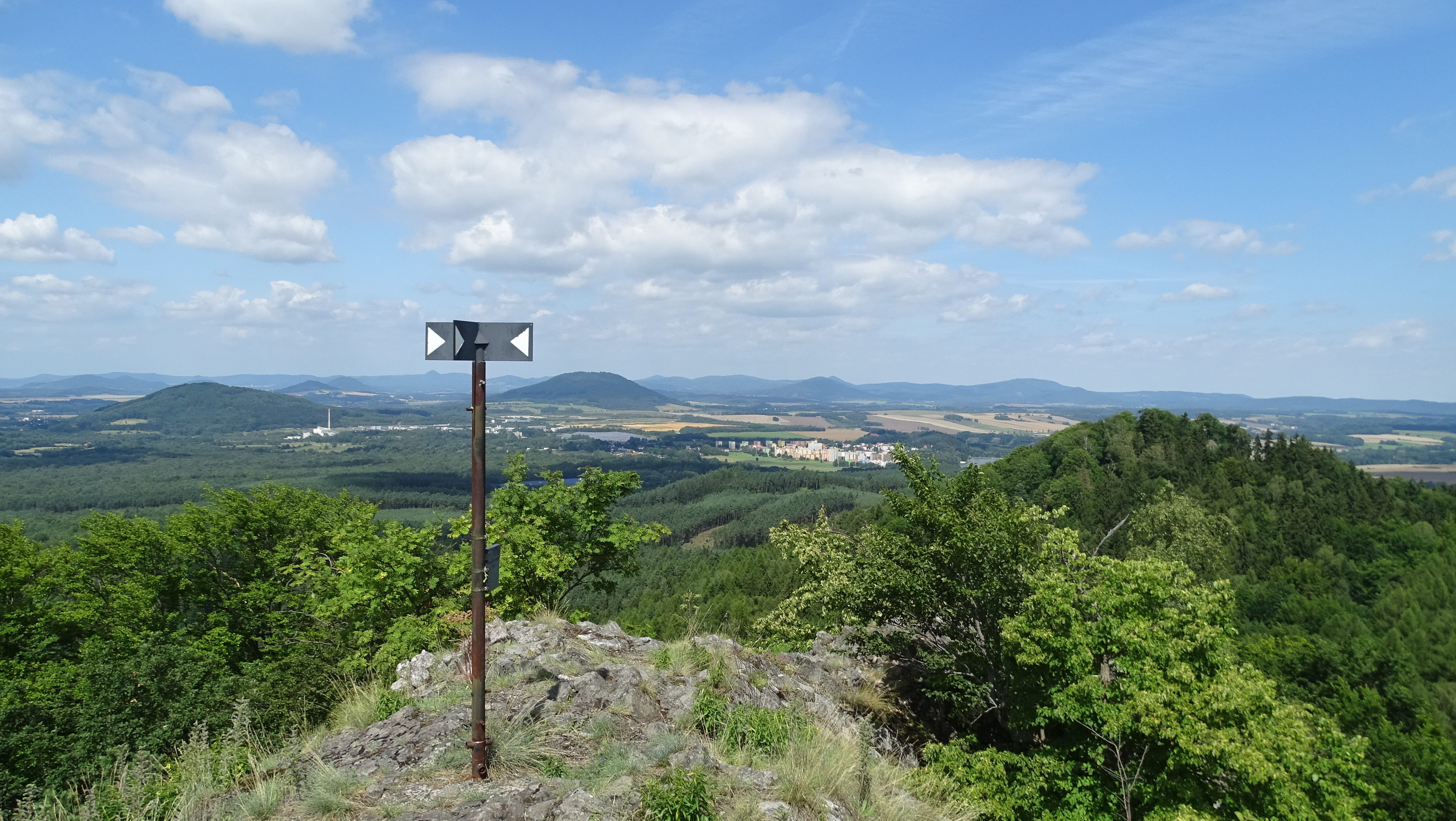 View from Velký Jelení vrch into Ralsko Mountains (Ralská pahorkatina) with the town of Mimoň in the foreground.